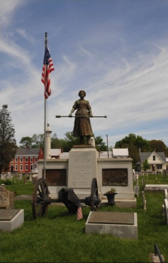 GRAVE OF MOLLY PITCHER – HEROINE OF THE BATTLE OF MONMOUTH. SHE WAS BORN MOLLY LUDWIG OF GERMAN HERITAGE. SHE MARRIED CASPER HAYS WHO DIED AND SUBSEQUENTLY MARRIED WILLIAM HAYS, PROBABLY CASPER’S BROTHER. DURING THE BATTLE OF MONMOUTH SHE BROUGHT WATER FOR THE SOLDIERS ON A VERY HOT JULY DAY AND WHEN WILLIAM WAS WOUNDED SHE ASSISTED IN FIRING THE CANNON. AFTER WILLIAM DIED IN 1787 SHE MARRIED JOHN MACCAULEY, AN IRRESPONSIBLE MAN WHO BROUGHT FINANCIAL DECLINE TO THE FAMILY. MOLLY DIED IN 1833